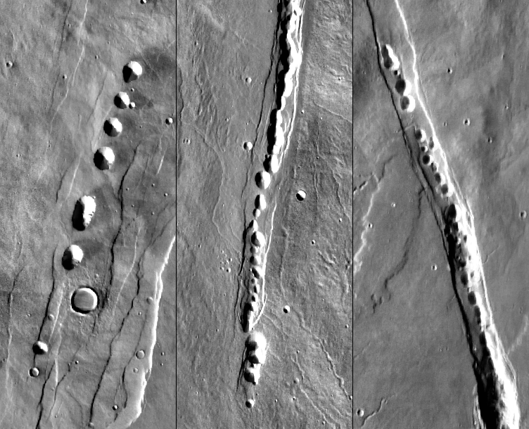 Three crater chains on Mars (in the vicinity of Alba Patera): Ceraunius Catena, Artynia Catena and Cyane Catena. Collage of 3 daytime infrared image mosaics from the Thermal Emission Imaging System (THEMIS) instrument of the 2001 Mars Odyssey spacecraft. Height of the image is 70 km.